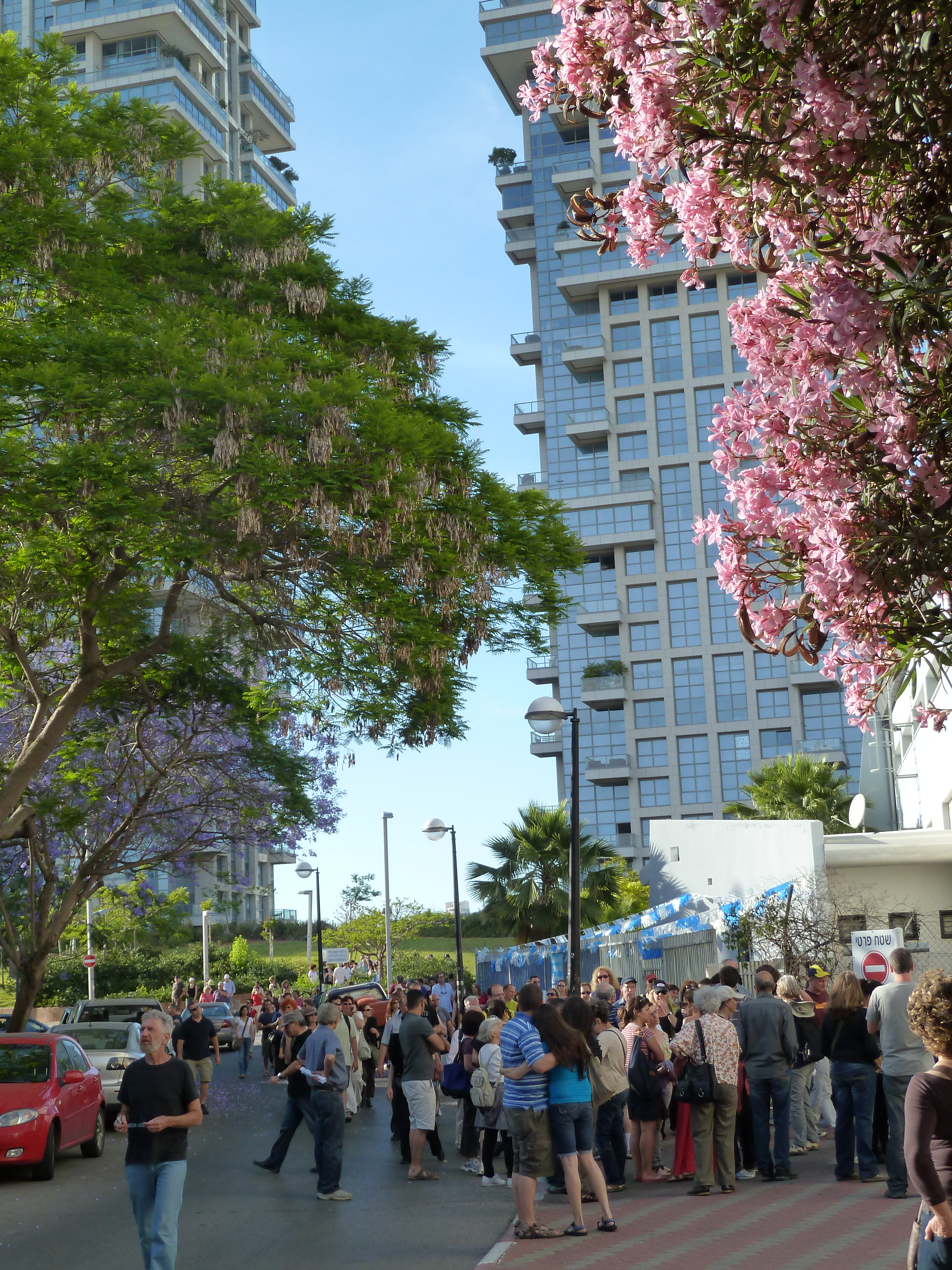 Akirov Skyscrapers, Pinkas Street, Tel Aviv, Israel